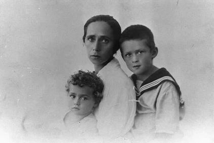 Itzhak Rabin with sister Rachel and their mother, 1927